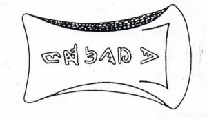 Old Hungarian (Rovásírás) text on an axe socket found in the plains of Campagna, near Rome. It was made around 1000 BC.